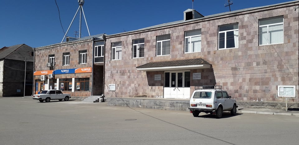 Village Center of Koghb